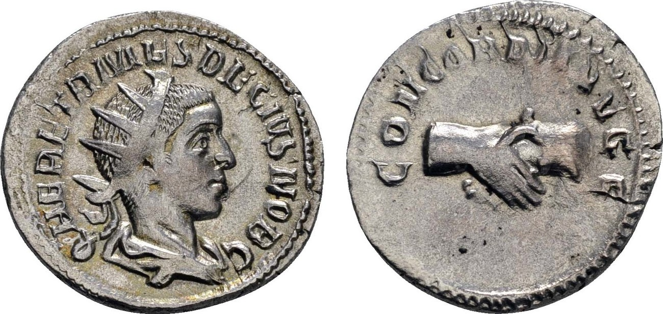 Herennius Etruscus Coin - Material: Silver Weight: 2.43 g Herennius Etruscus Antoninian Rom, 250/251 n. Chr. Vs.: Q HER ETR MES DECIVS NOB C, Rs.: CONCORDIA AVGG